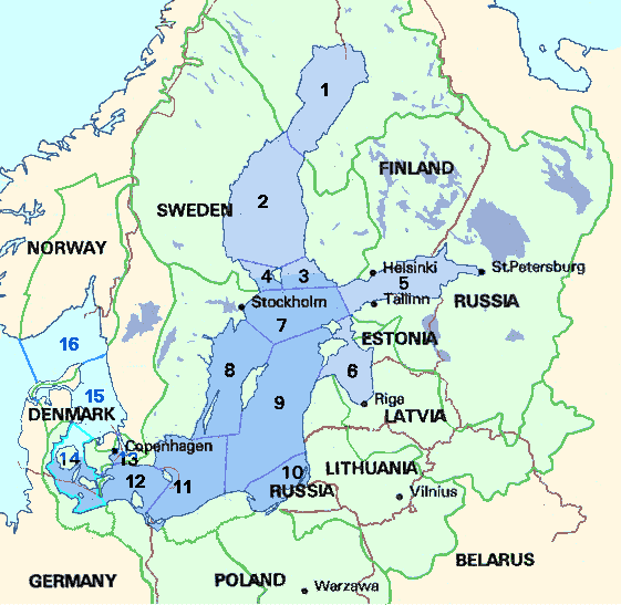 A map of the Baltic Sea drainage basins and marine subdivisions of the Baltic Sea. 1. Bothnian Bay 2. Bothnian Sea 3. Archipelago Sea 4. Åland Sea 5. Gulf of Finland 6. Gulf of Riga 7. Northern Baltic Proper 8. Western Gotland Basin 9. Eastern Gotland Basin 10. Gdansk Basin 11. Bornholm Basin 12. Arkona Basin 13. The Sound 14. Belt Sea (partly shared by the Baltic Sea partly by the Kattegat) 15. Kattegat (no integral part of the Baltic Sea) 16. Skagerrak (no part of the Baltic Sea)